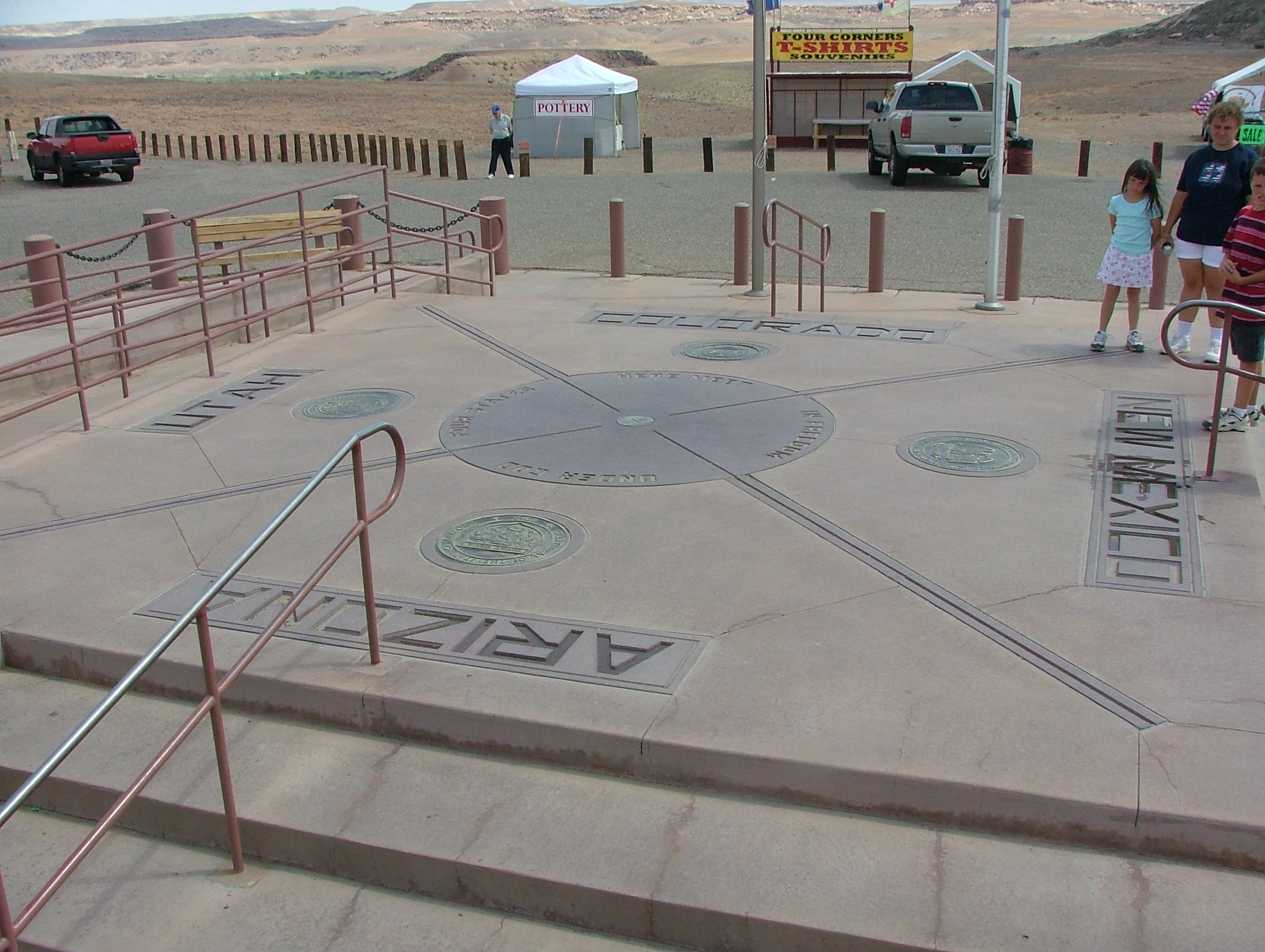 Four Corners Monument Photo by Jan Kronsell, 2006